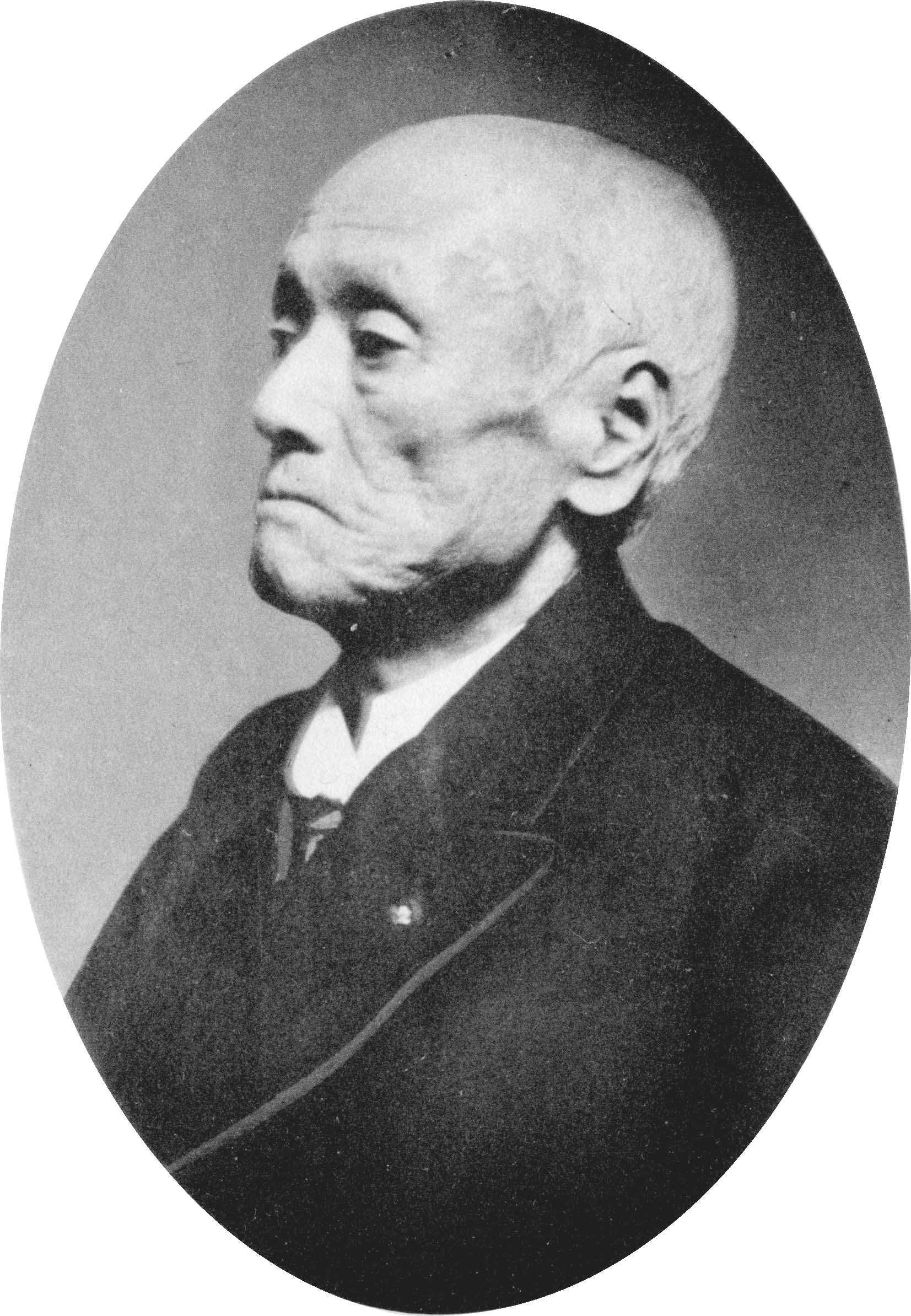 Yamakawa Kenjirō, president of the Imperial University of Tokyo.